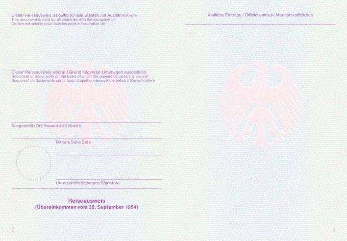 Interior pages 2 and 3 of the german passport for stateless people